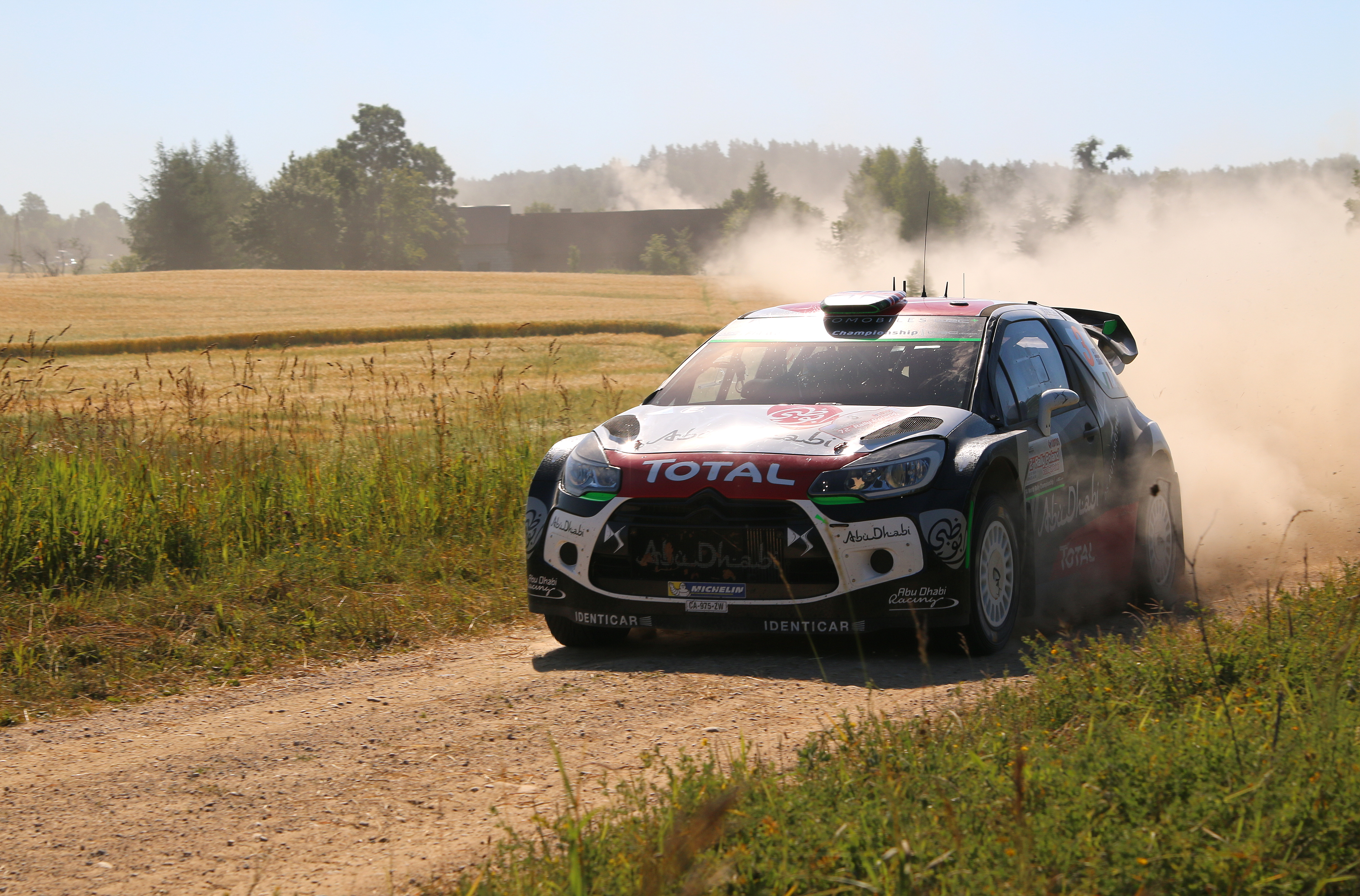 Kris Meeke, OS 10 Mazury, 72nd LOTOS Rally Poland